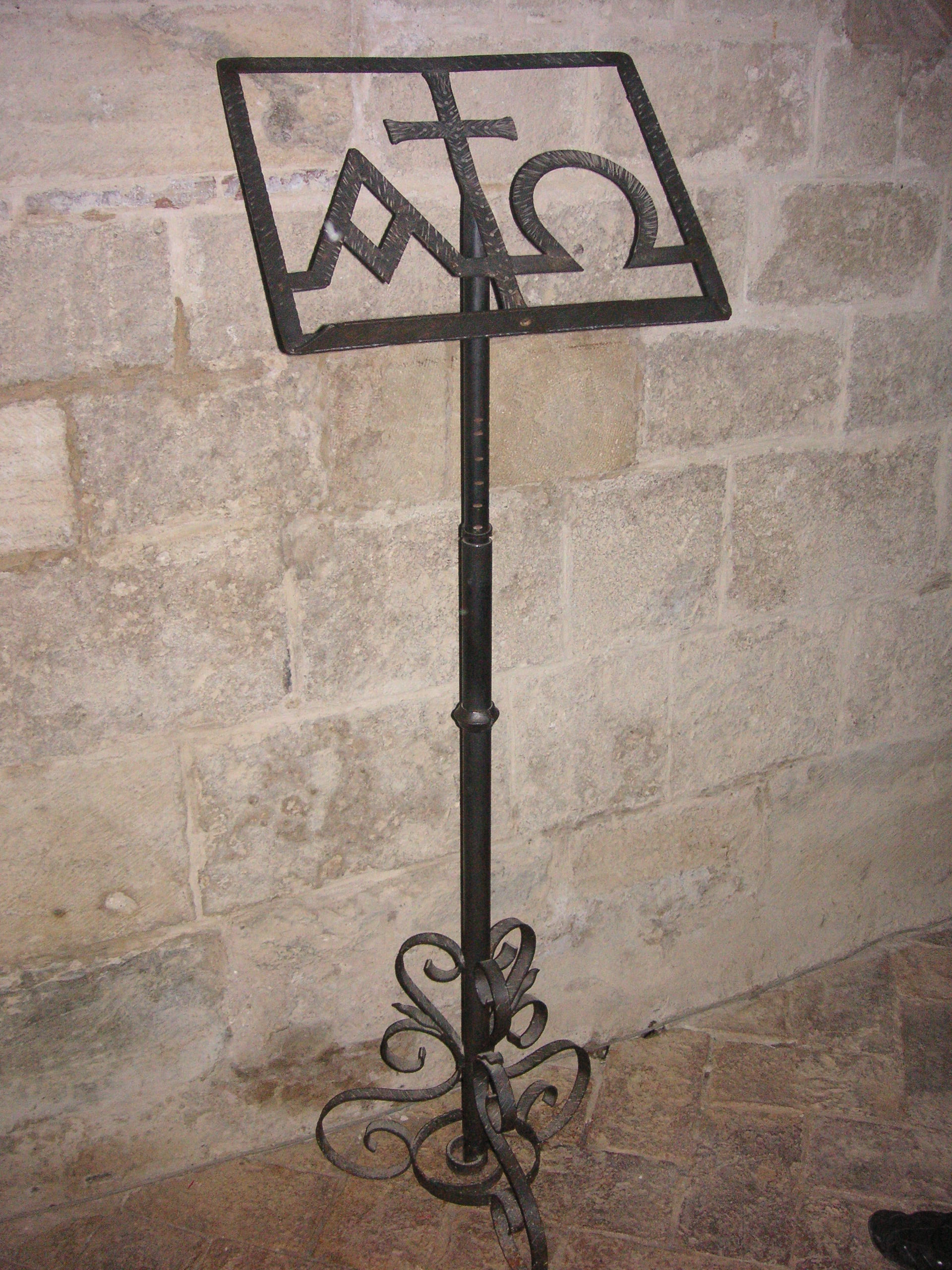 A lectern in the Abbey of Sant'Antimo